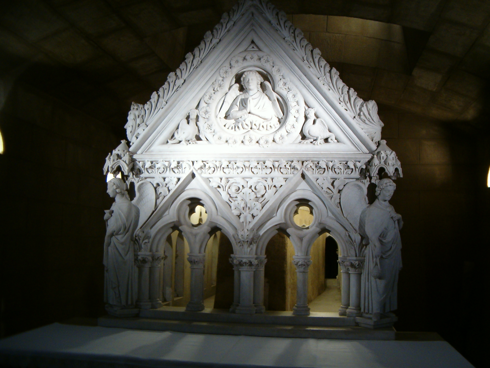 Self made picture. More information (English)